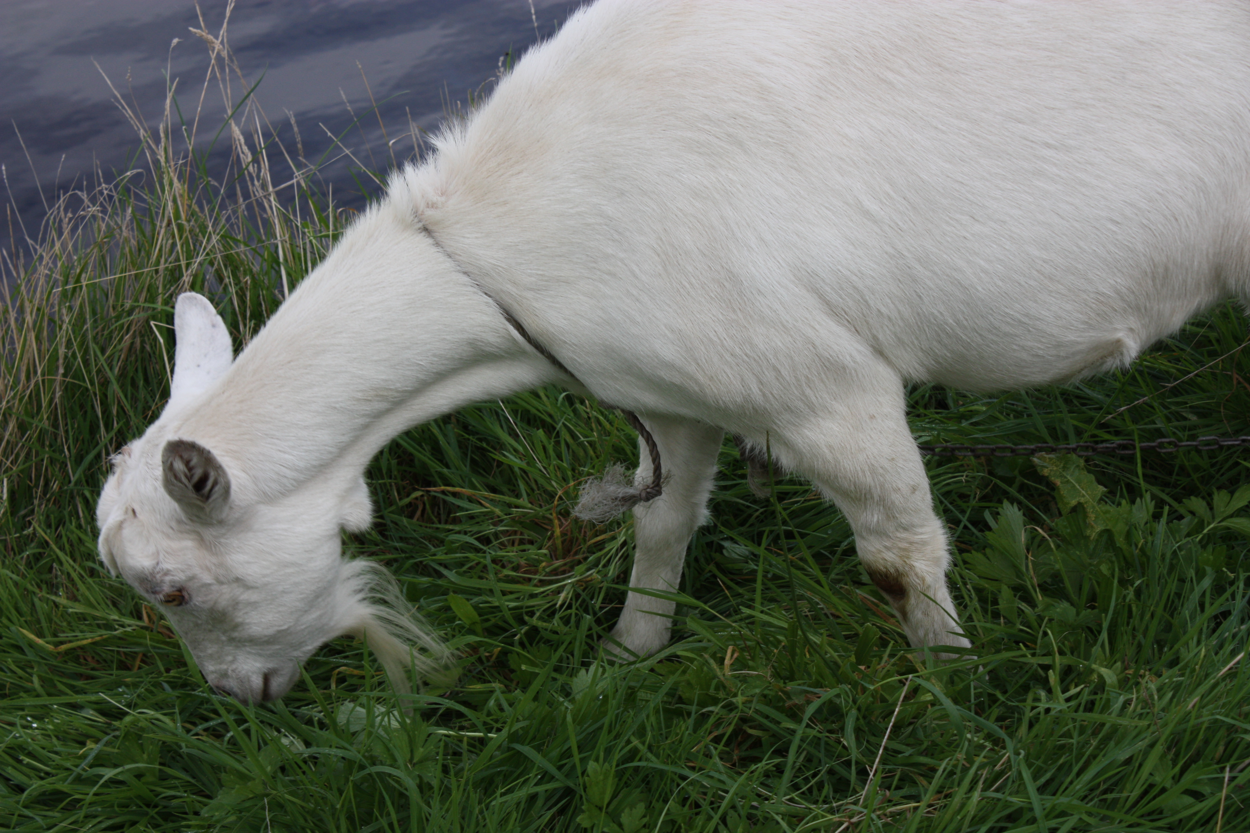 Goat at Cushendun Harbour, Cushendun, County Antrim, Northern Ireland, September 2010